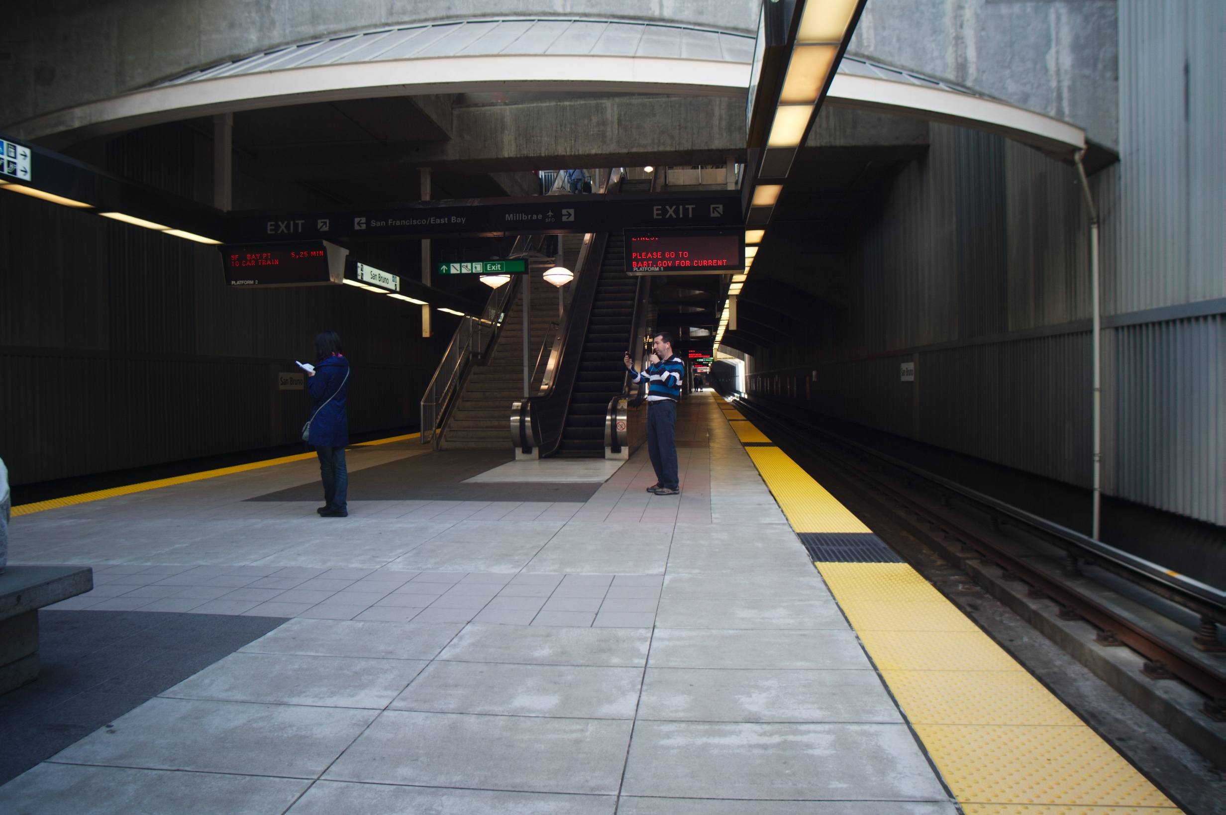 I suppose I'm doing the same thing, too.